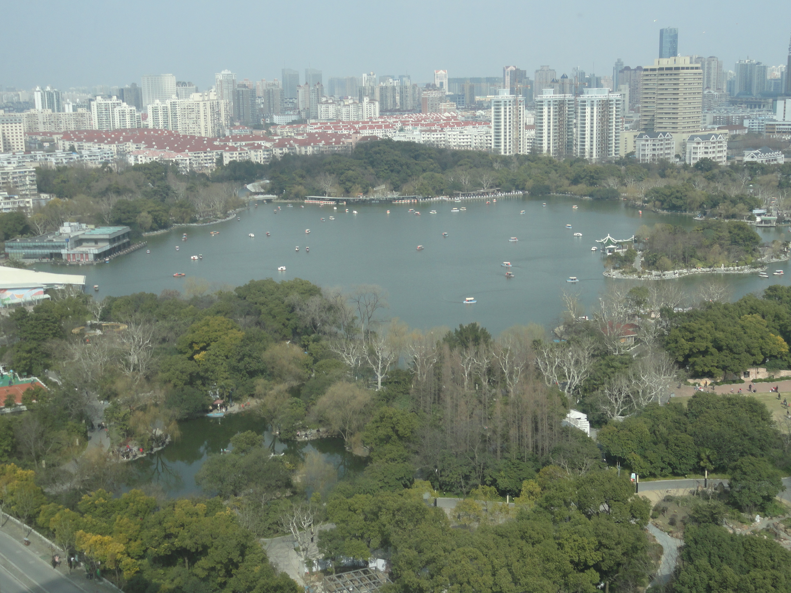 Changfeng Park is one of the nicest parks in Shanghai. Located in an upper middle class residential area and close to the East China Normal University campus. 上海市长风公园